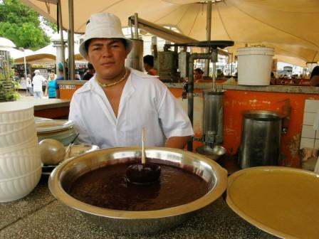 Euterpe edulis